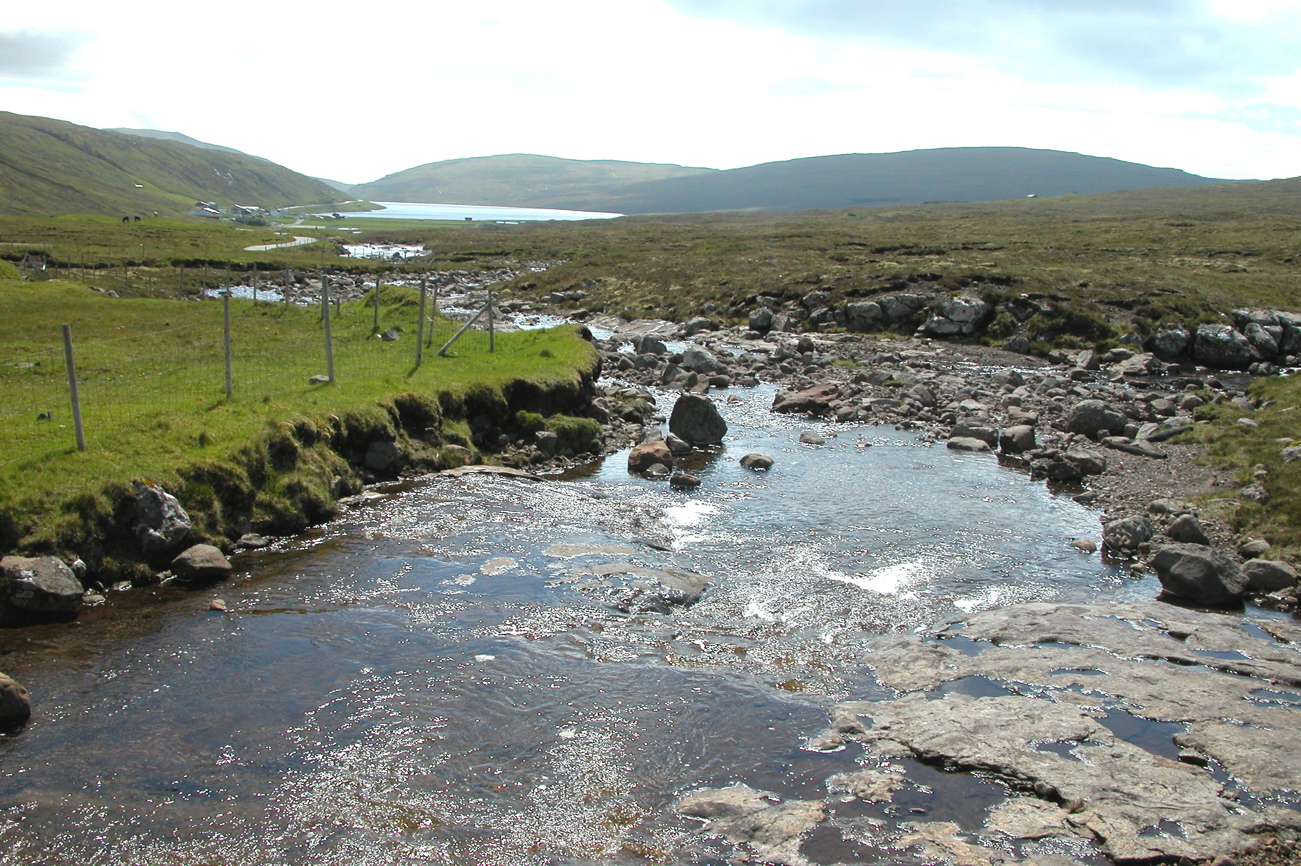 Vatnsoyrar on Vágar, Faroe Islands. View on the fjord